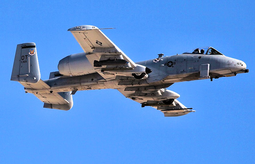 422d Fighter Weapons Squadron 422d Test and Evaluation Squadron - Fairchild Republic A-10A Thunderbolt II 79-0169 Aircraft was sent to AMARC as AC0196 Oct 13, 1999. Returned to serice Jan 4, 2000